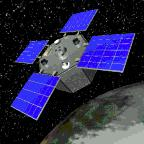 A simulation of ACRIMSat (Active Cavity Radiometer Irradiance Monitor Satellite)